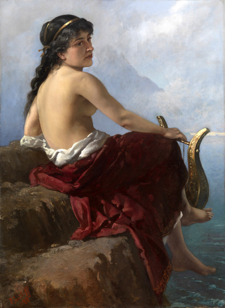 Sappho